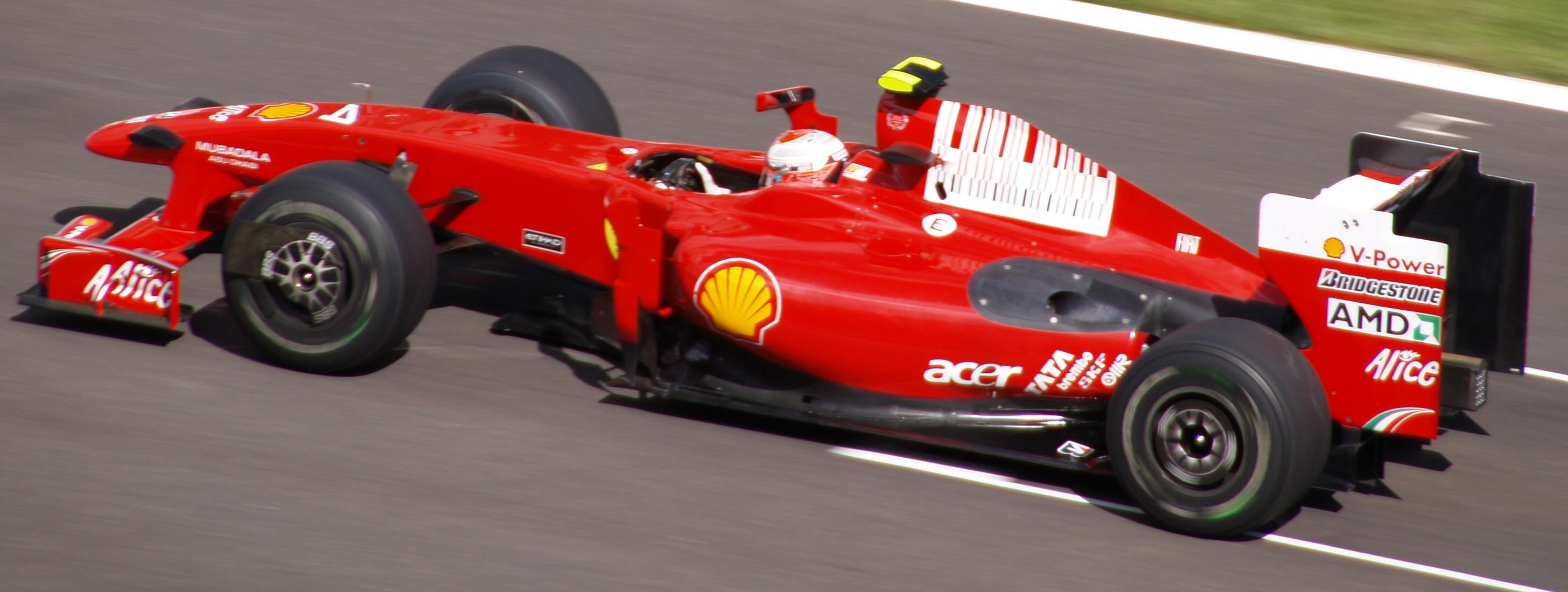 Kimi Räikkönen driving for Scuderia Ferrari at the 2009 Belgian Grand Prix.